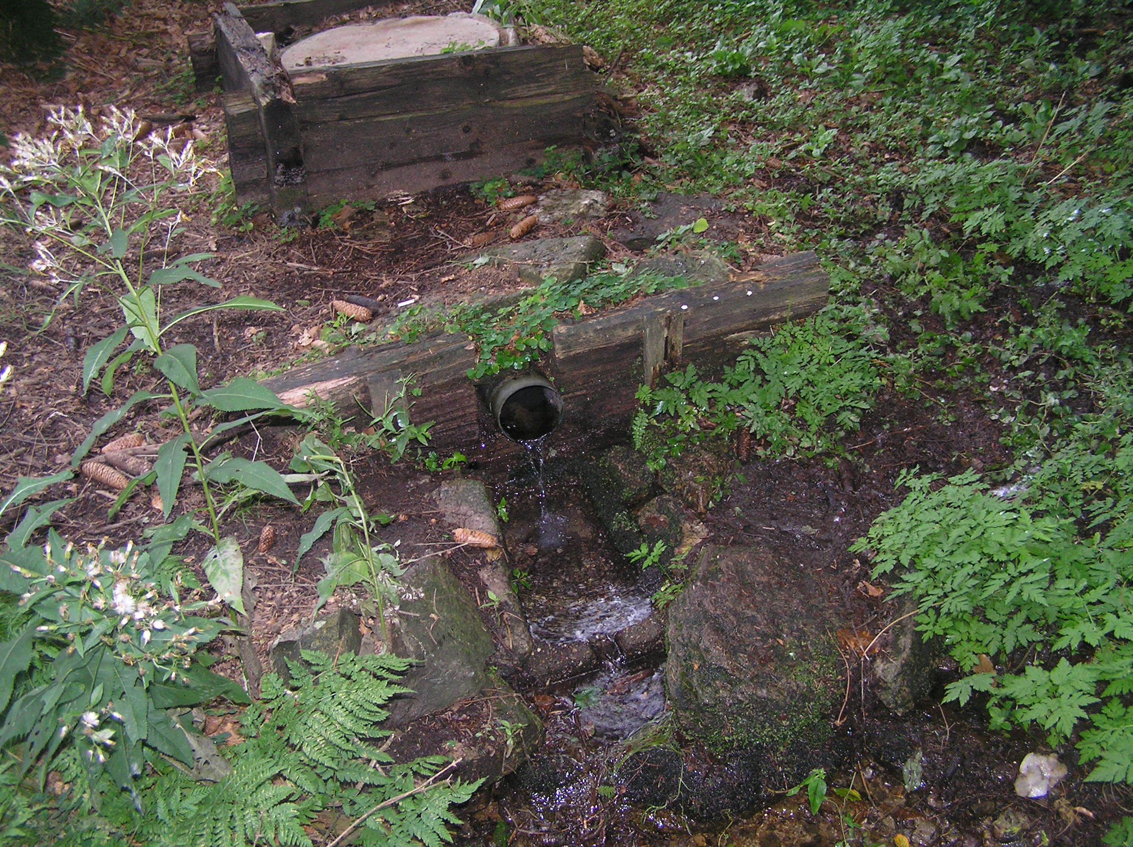 Lipkovský potok is the creek in the Králický Sněžník Mountains, Czech Republic